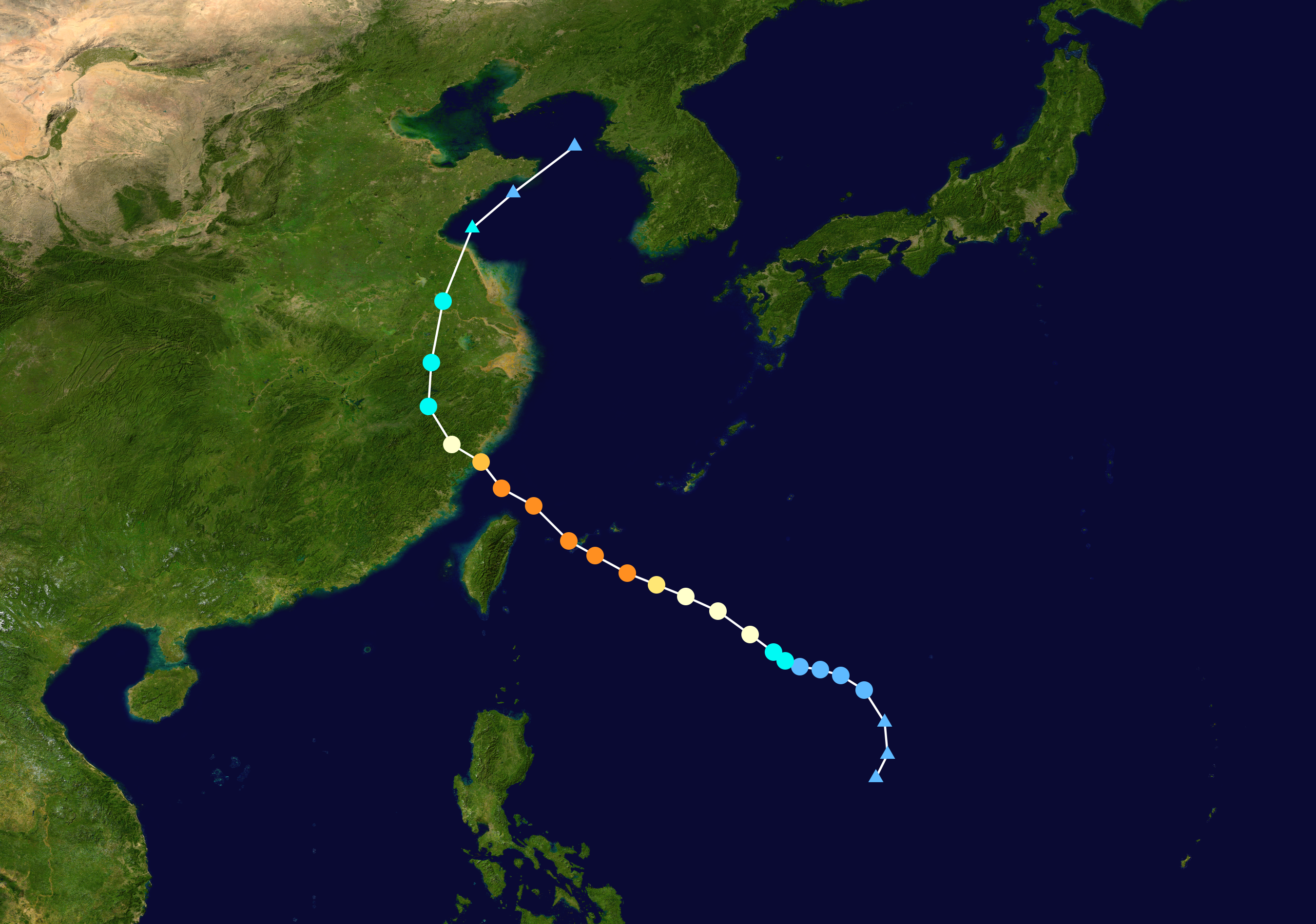 Track map of Typhoon Wipha of the 2007 Pacific typhoon season. The points show the location of the storm at 6-hour intervals. The colour represents the storm's maximum sustained wind speeds as classified in the Saffir–Simpson scale (see below), and the shape of the data points represent the nature of the storm, according to the legend below. Saffir–Simpson scale Tropical depression≤38 mph≤62 km/h Category 3111–129 mph178–208 km/h Tropical storm39–73 mph63–118 km/h Category 4130–156 mph209–251 km/h Category 174–95 mph119–153 km/h Category 5≥157 mph≥252 km/h Category 296–110 mph154–177 km/h Unknown Storm type Tropical cyclone Subtropical cyclone Extratropical cyclone / Remnant low / Tropical disturbance / Monsoon depression